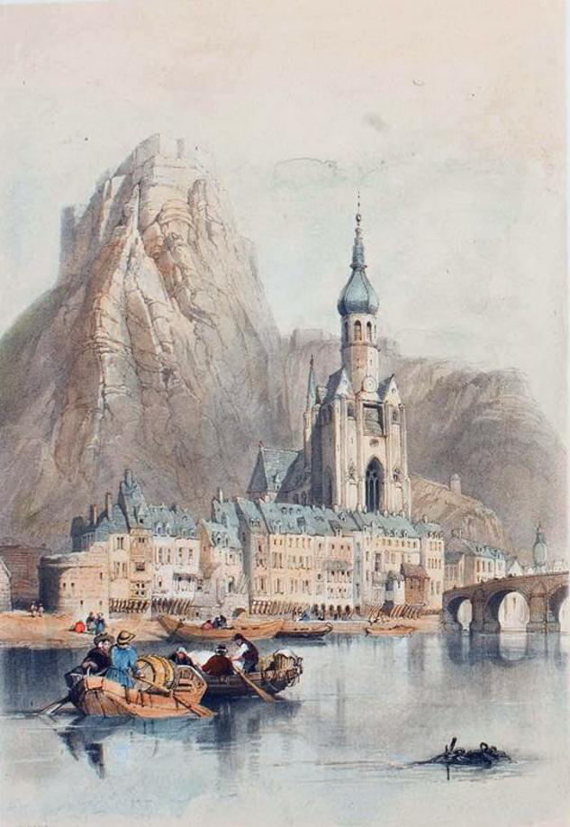 Dinant on the Meuse